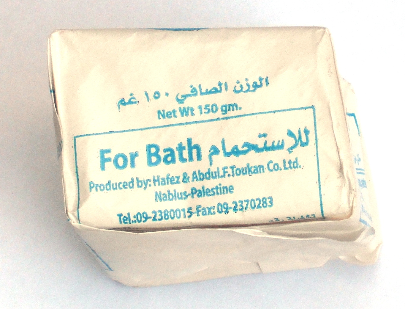 A block of soap, in its original wrapping, made in Nablus in the occupied West Bank in Palestine. The side of the packaging shown has no artwork but does show the manufacturers name and address.